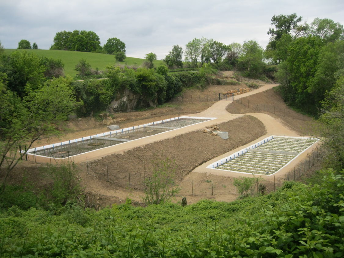 The new sewage treatment system in town Cardaillac in Lot department, France. A new process is implemented including filter using reeds to filter wastewater on two successive stages.